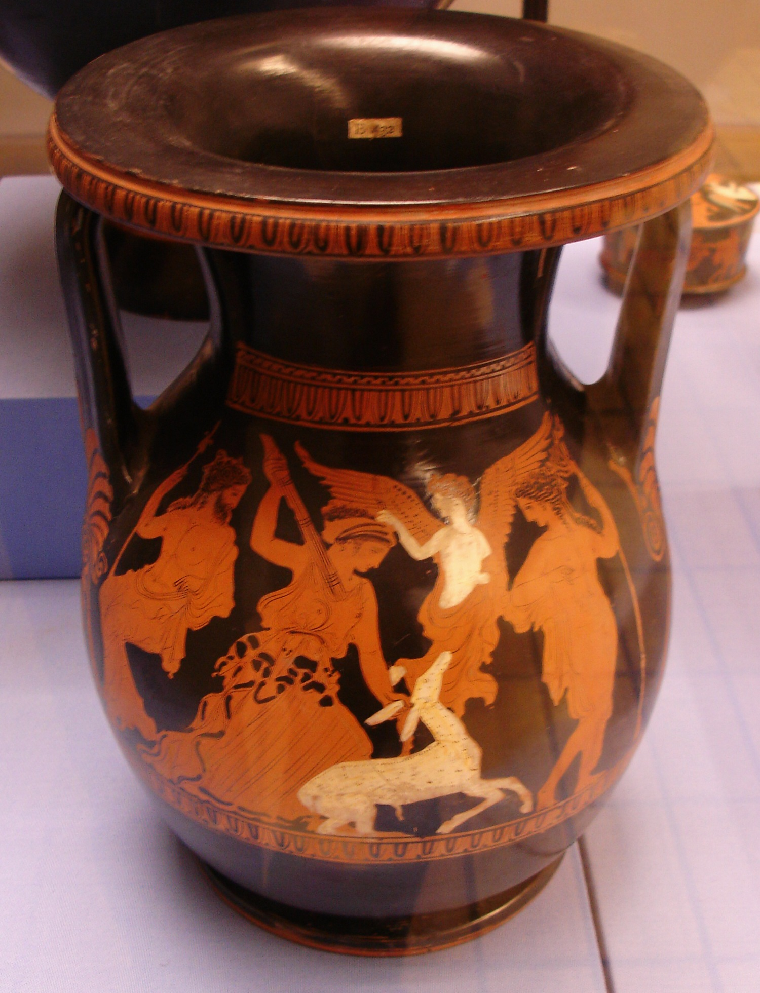 Artemis hunting a stag, surrounded by Zeus (left), Nikê (top) and Apollo (right). The goddess is wielding a torch like a spear, the torch refering to her role as the bringer of light. Attic red-figured pelike. From S. Agata dei Goti (Campania, South Italy).